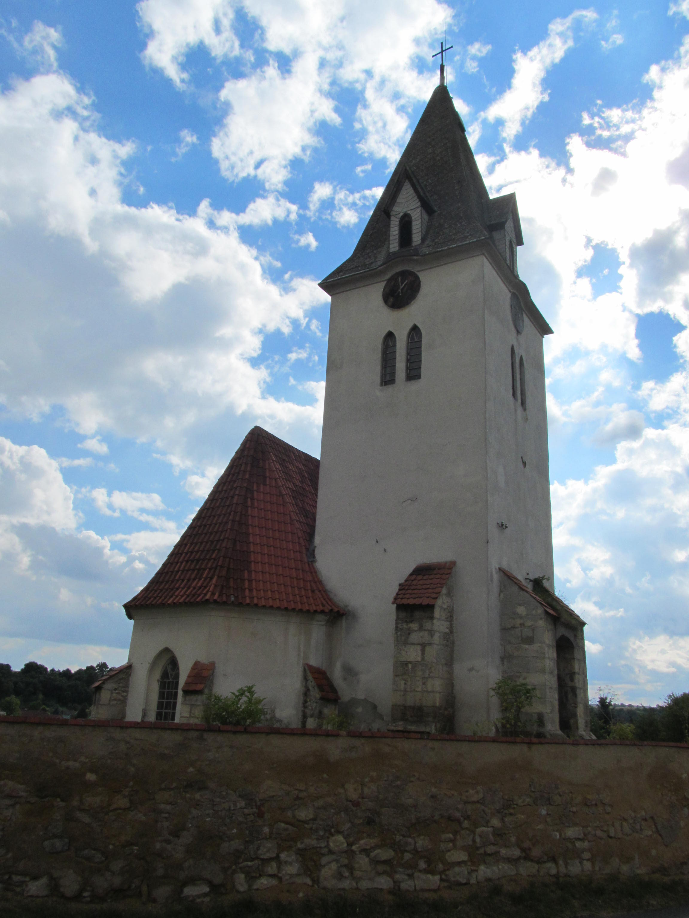 Church of Saint Michael in Bitozeves - total view